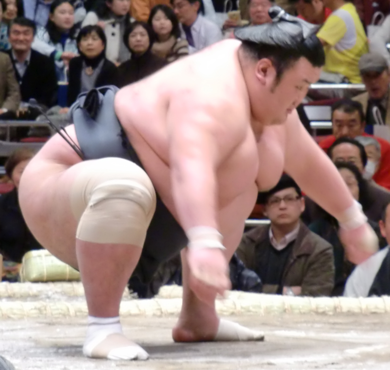 taken at 2010 January tournament